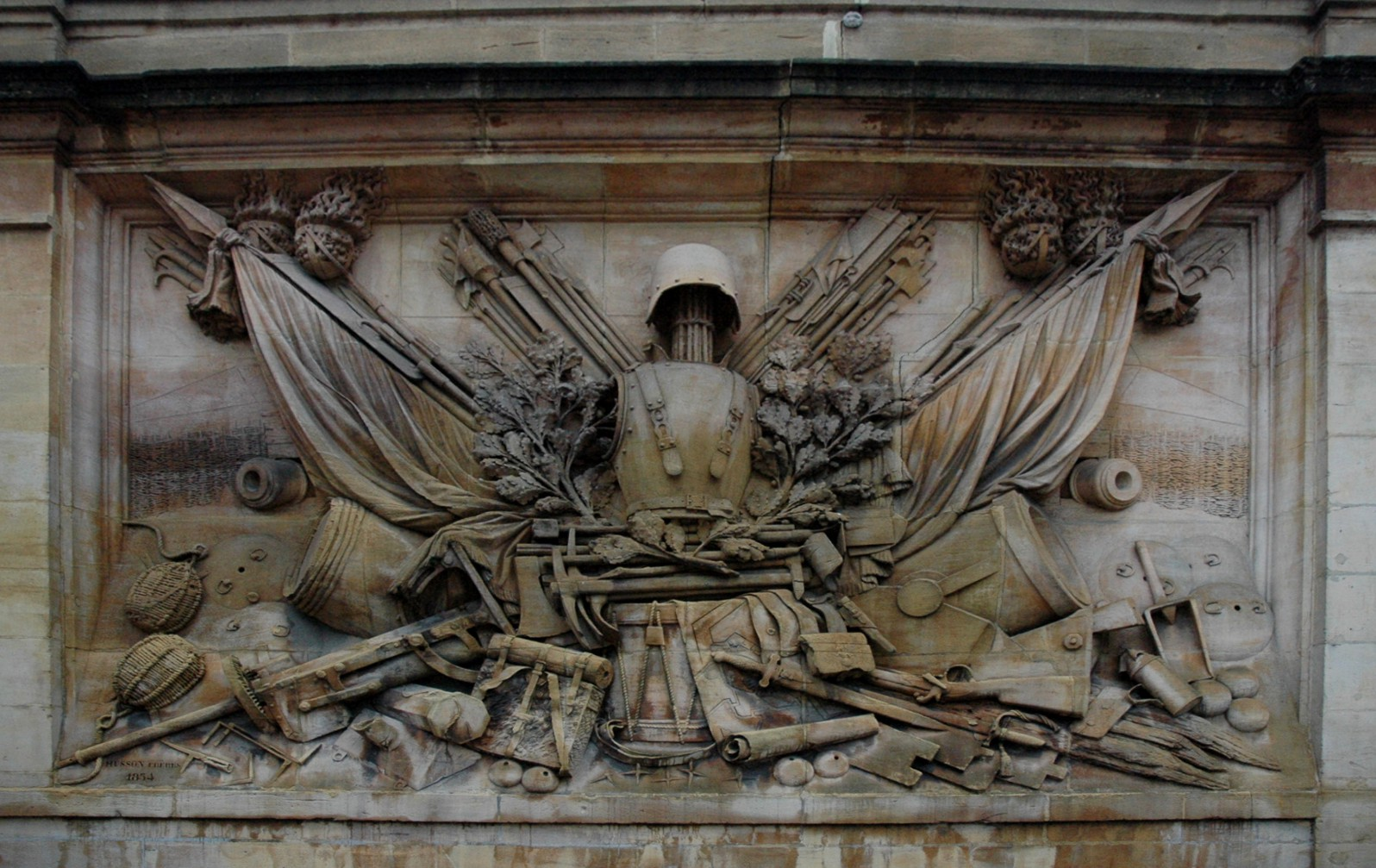 Tropaion at the gate of the Ney barrack in Metz.